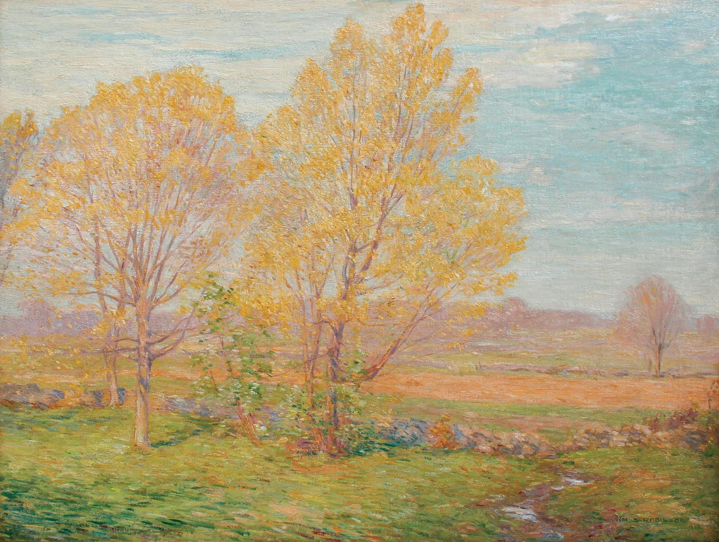 Early May, Old Lyme by William S. Robinson, 1900-1920, oil on canvas, 40 x 30 in.